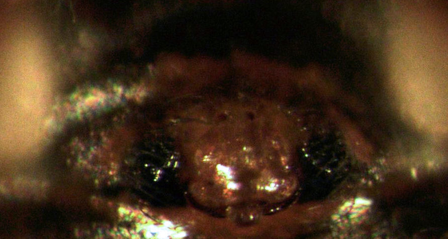 epigyne of linyphiid, probably Tenuiphantes tenuis